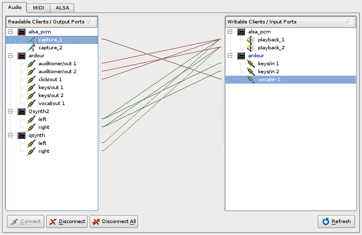 An example how the Audio tab of qjackctl may look.